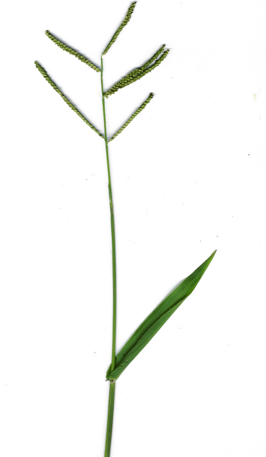 Paspalum scrobiculatum (plant). Location: Maui, Hana Hwy